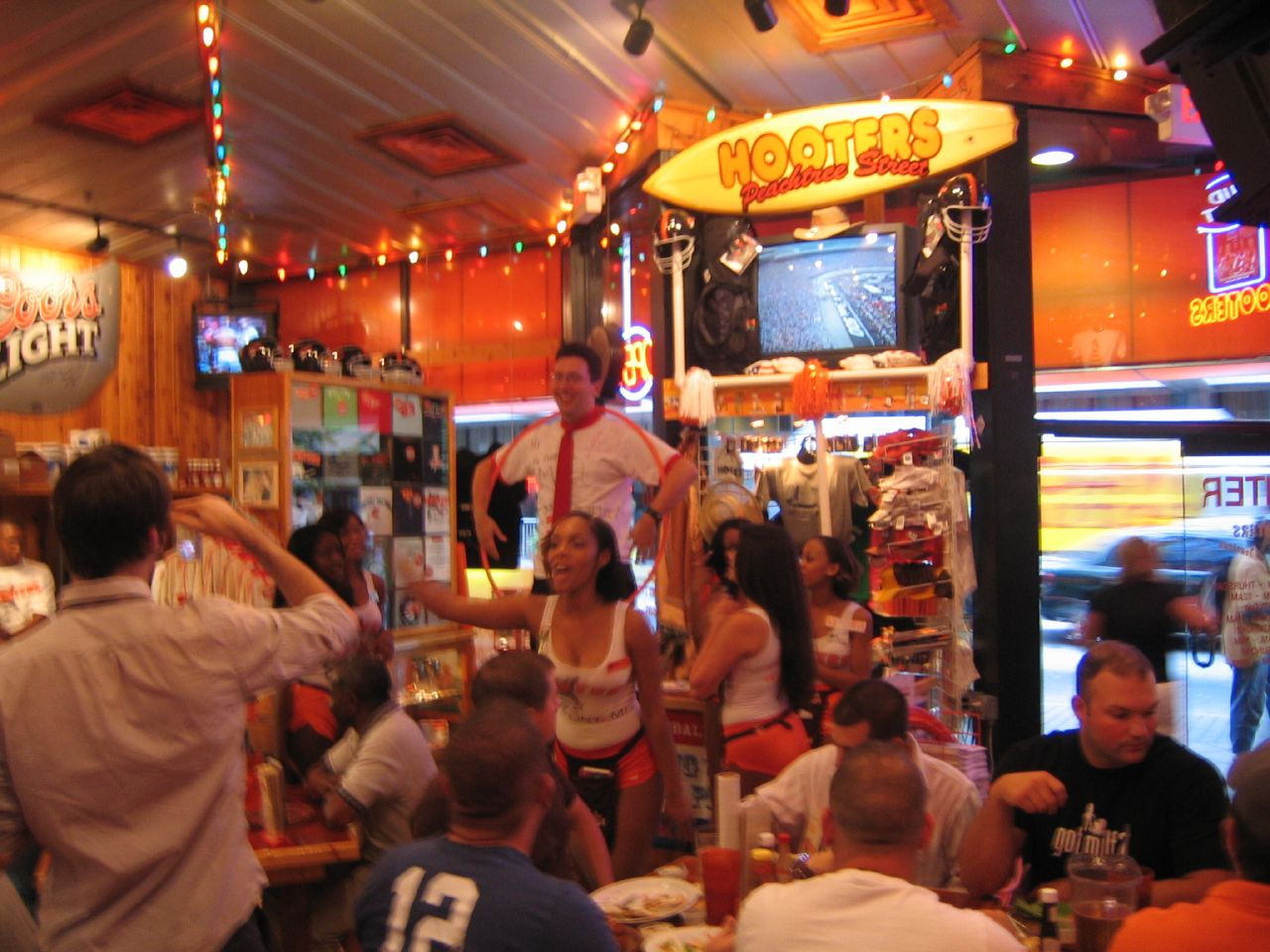 Bachelor party at hooters.